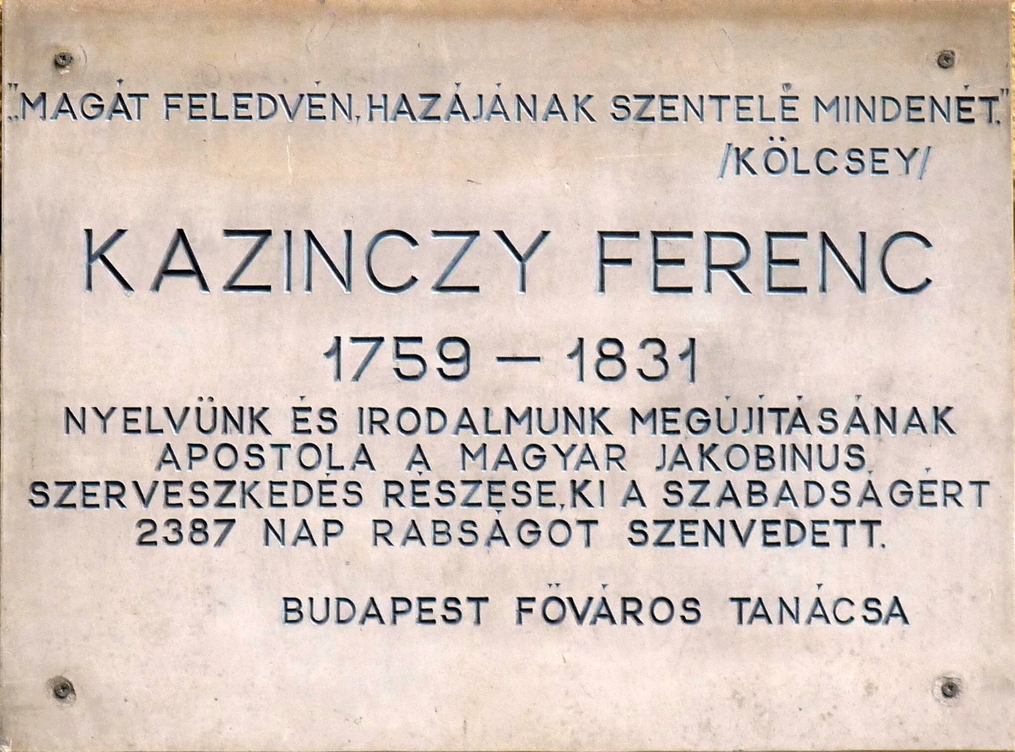 Commemorative plaque to Mr. Ferenc Kazinczy (1759–1831) Hungarian author, placed in the street bearing his name. (Budapest, District VII, Kazinczy Street Nr 1).